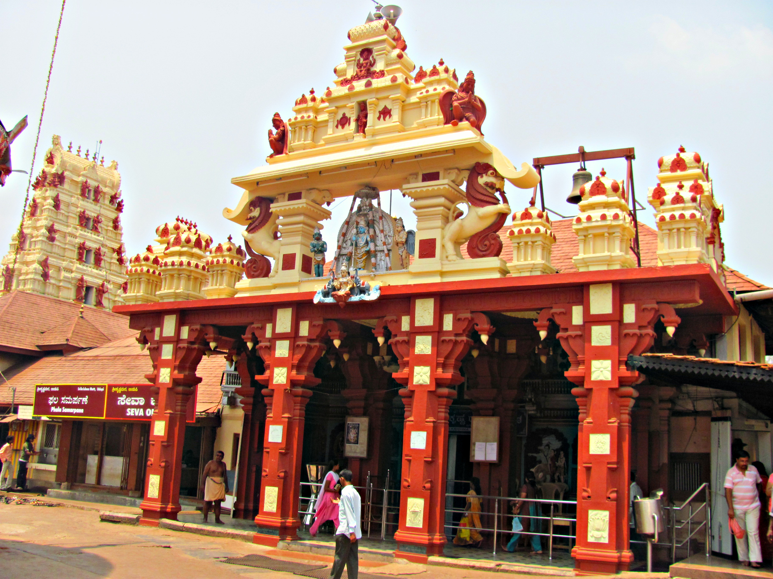 The famous Lord Krishna temple situated in the town of Udupi, Karnataka.... FOr more info..Please visit